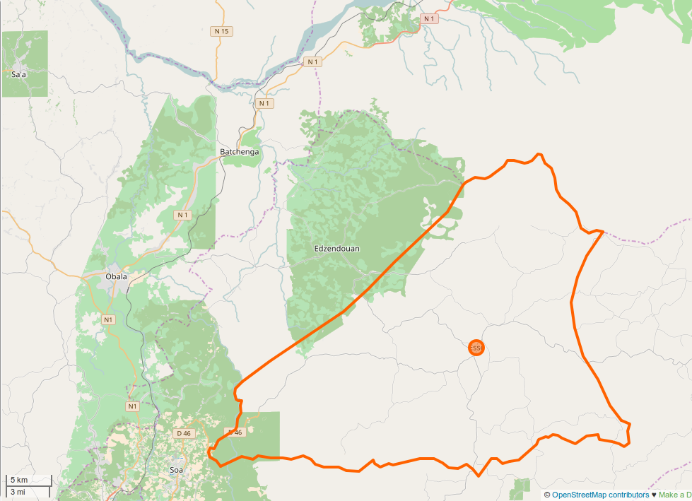 Esse in Cameroon ː city boundaries with OSM. This map may be incomplete, and may contain errors. Don't rely solely on it for navigation.